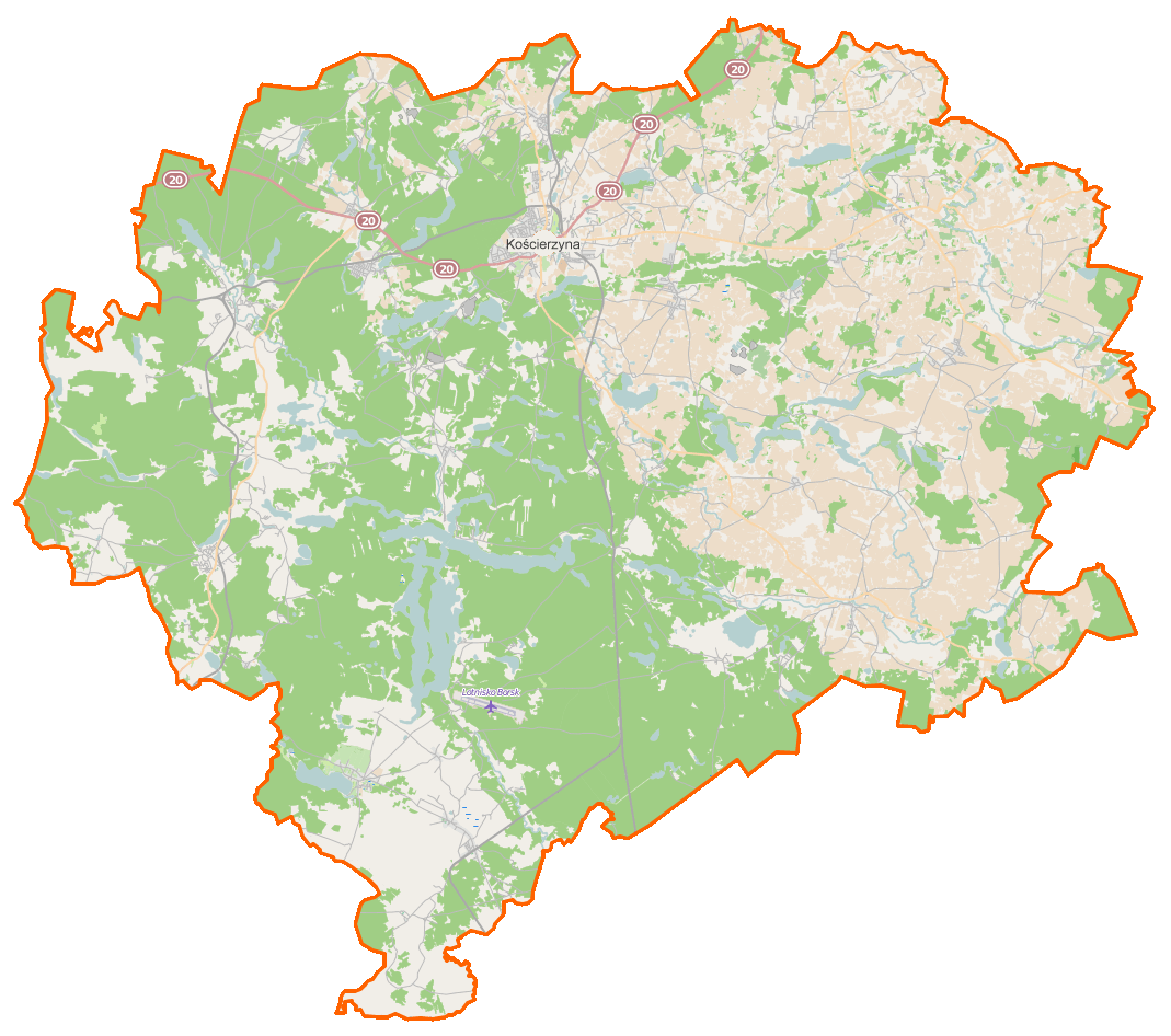 Map of Powiat kościerski, Poland This map of Powiat kościerski was created from OpenStreetMap project data, collected by the community. This map may be incomplete, and may contain errors. Don't rely solely on it for navigation.